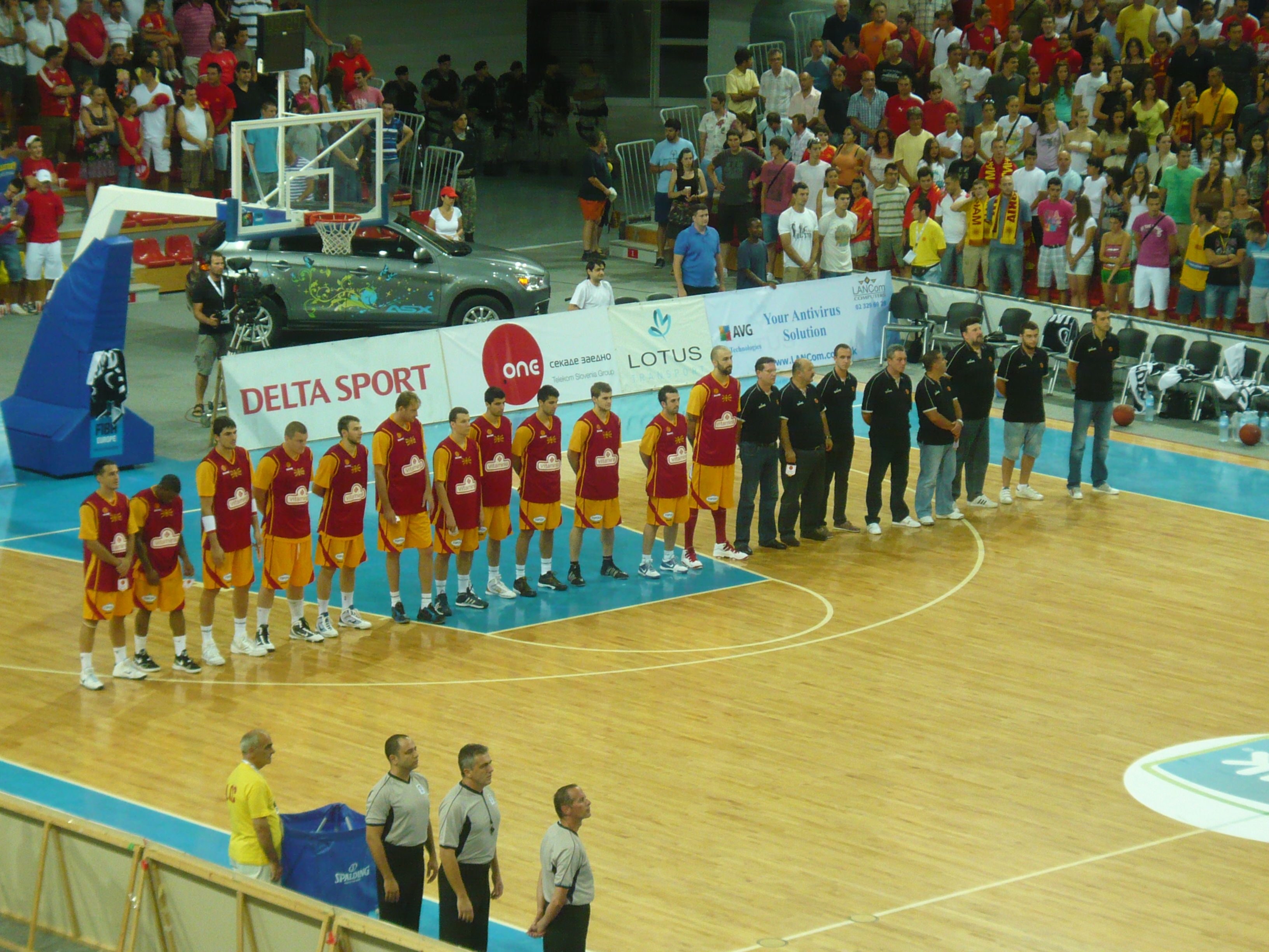 The Macedonian National Basketball Team in a match against Ukraine, Boris Trajkovski Sports Center, Skopje